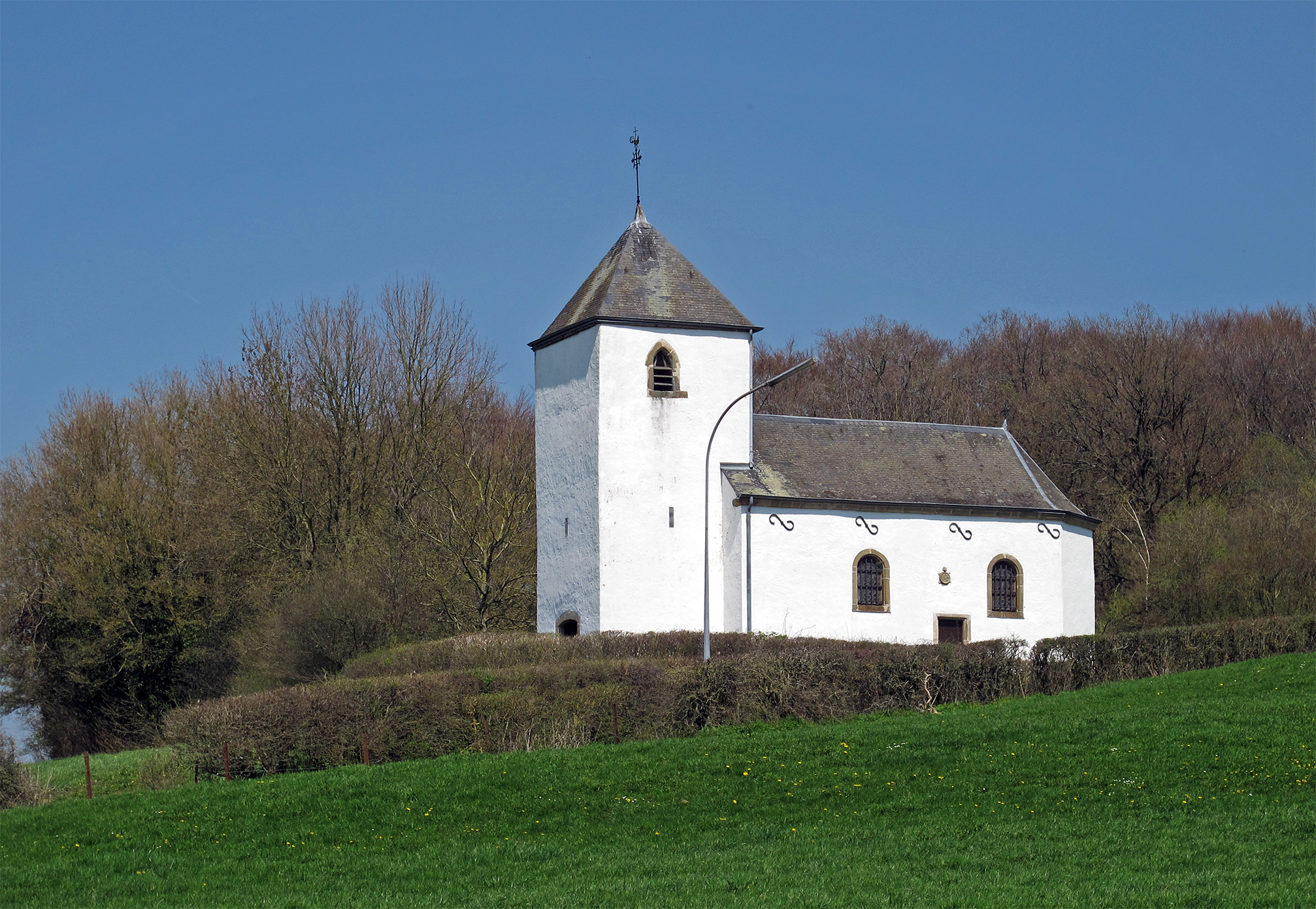 Chapel of Kapweiler, Luxembourg